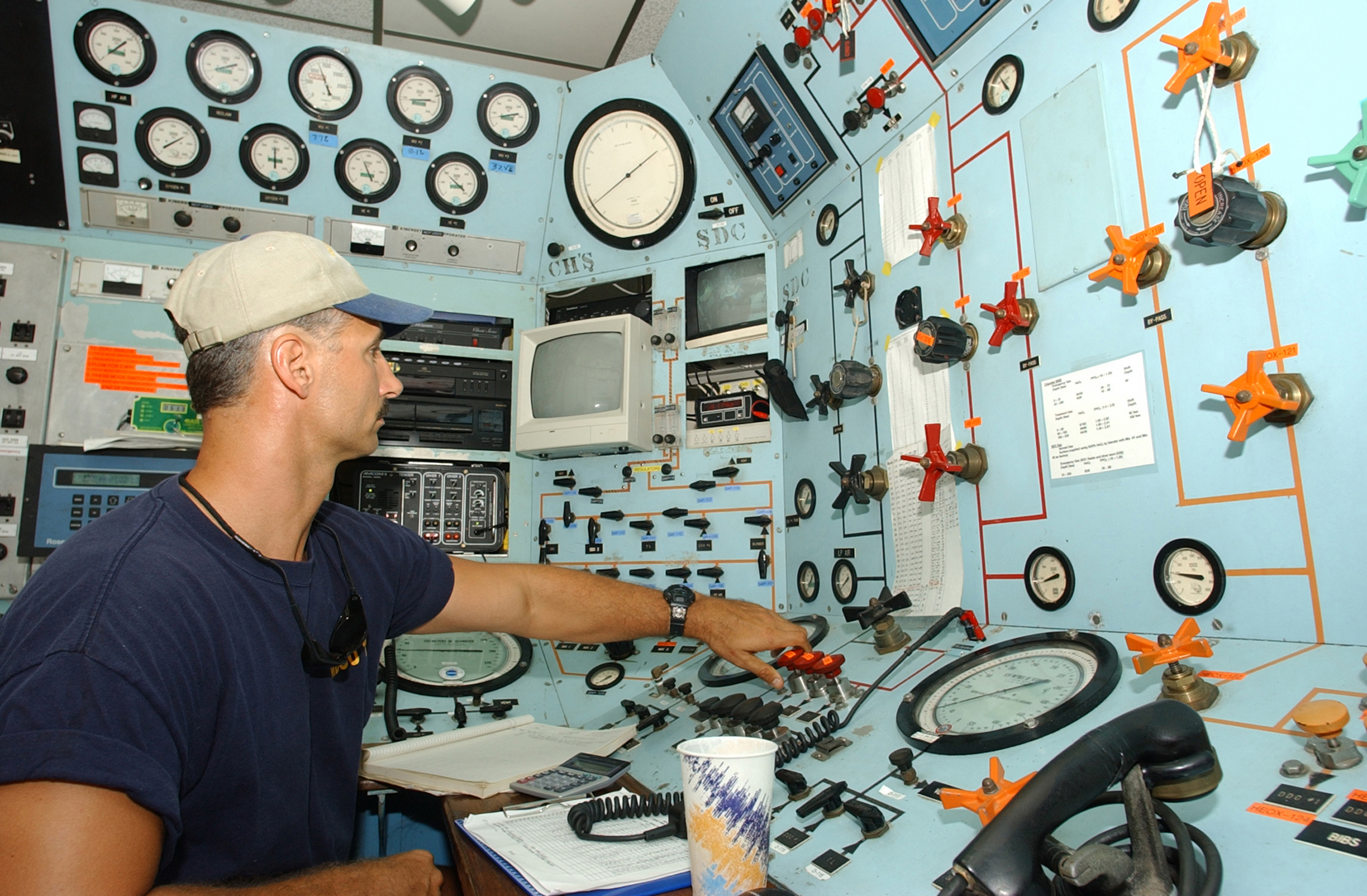 Atlantic Ocean (Jul. 1, 2002) -- Chief Hospital Corpsman Mitch Pearce makes adjustments to the saturation air system during a dive on the sunken Civil War ironclad, USS Monitor, which rests 240 feet below the ocean's surface. Diving operations are designed to prepare the 22 foot diameter turret and 11-inch Dahlgren guns for salvage and recovery. U.S. Navy photo by Chief Photographer’s Mate Eric J. Tilford. (RELEASED)